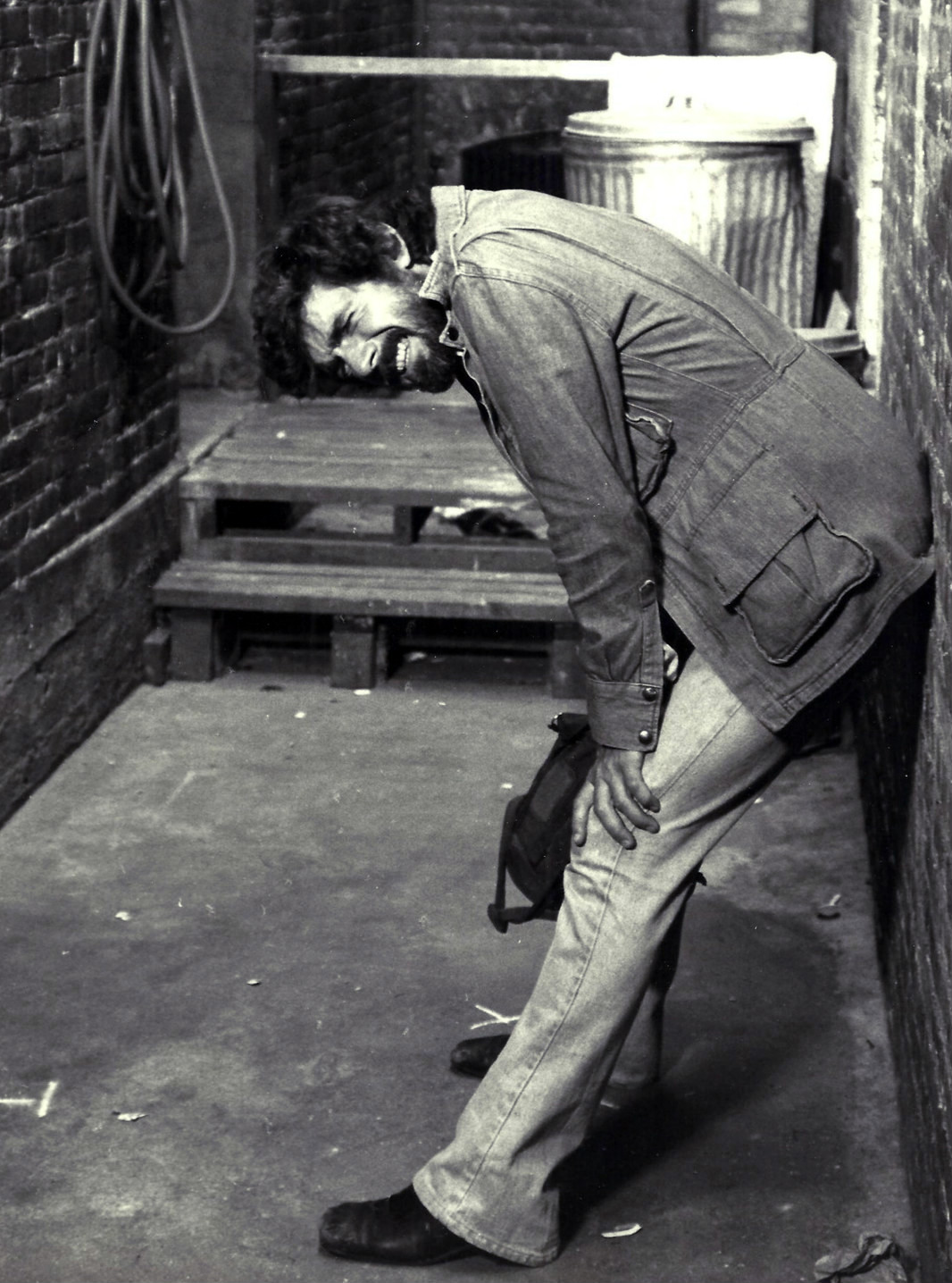 Photo of David Birney as Frank Serpico in the television program Serpico.